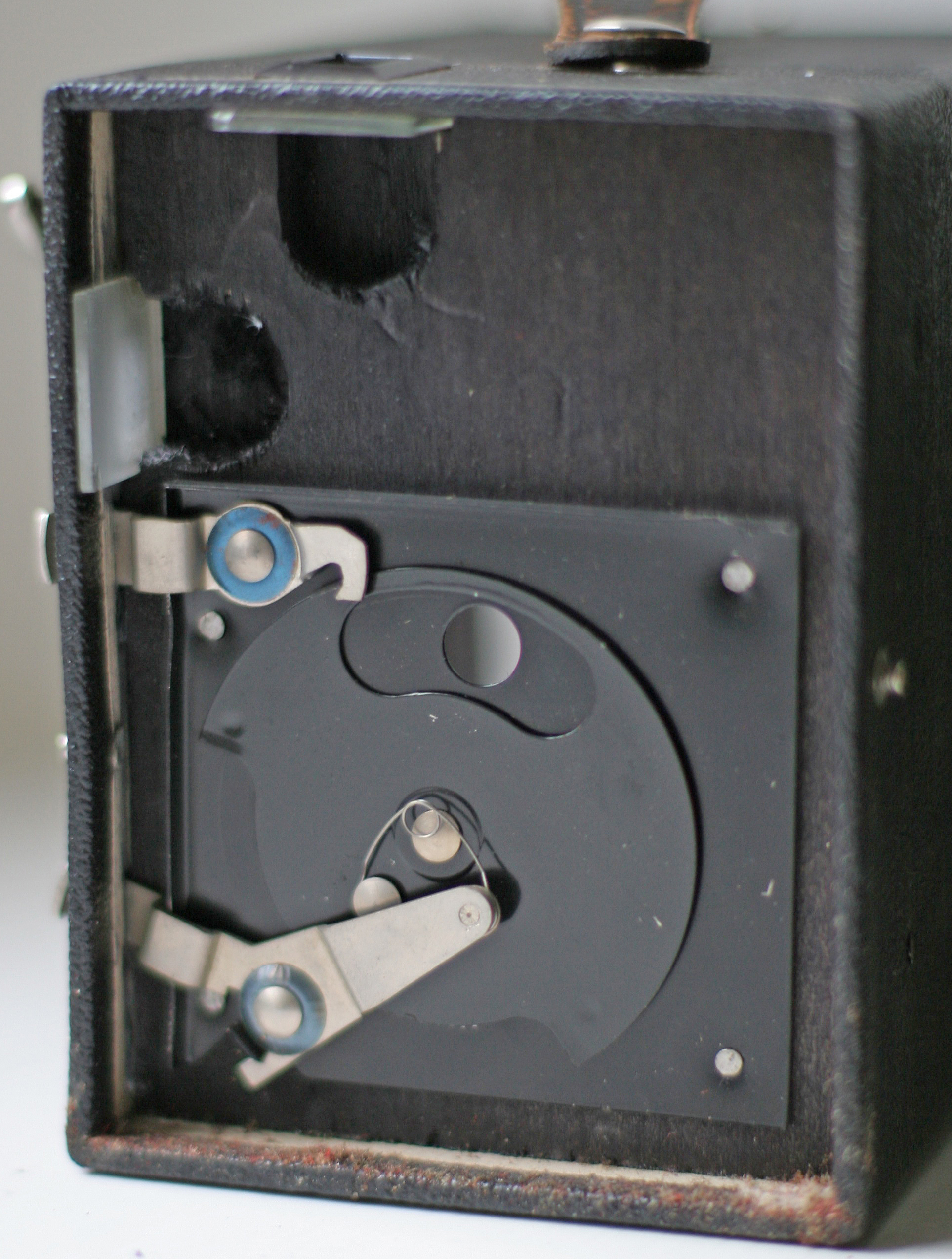 Agfa Box 44, rotary shutter open in "bulb" setting